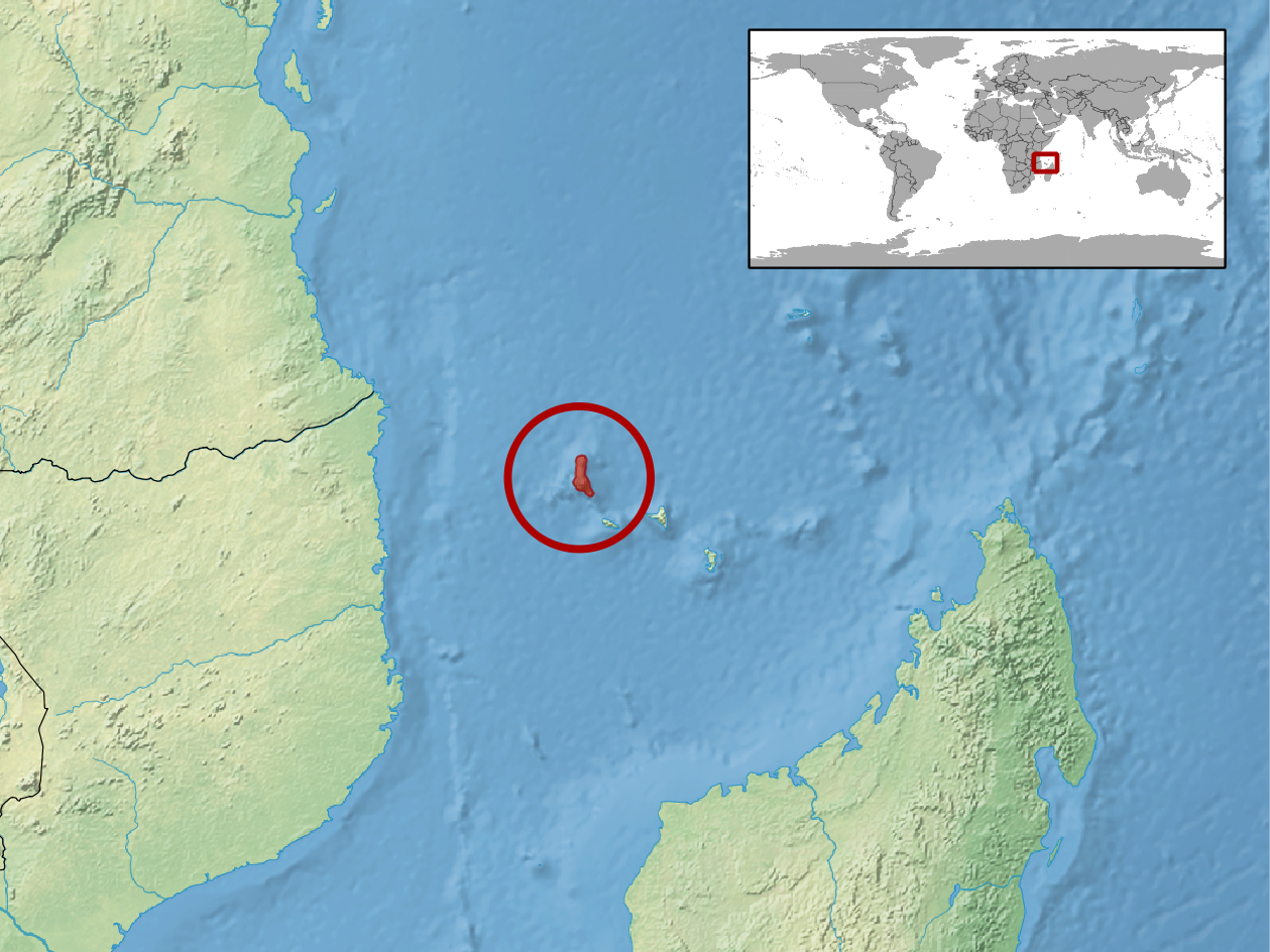 geographic distribution of Phelsuma comorensis (Native: Comoros)